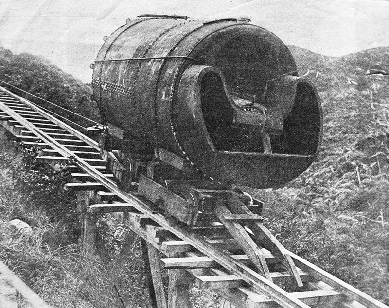 The kind of problem which faces the New Zealand bushman: taking out a sawmill boiler at Piha on the Auckland West Coast. Close-up view of a mill boiler on the Piha Tramway, derailed with the top set of bogie wheels just slightly off the wooden tram-rails, showing also the pulley and cable system being used for hauling the boiler over the hill from Karekare to Piha. Text from Auckland Weekly News, 29 December 1910: "The establishment of a sawmill in the Kerikeri [Karekare] Bush has proved to be a matter of the utmost diffulty. All the plant has to be hauled up a bush tramway which in several places has a grade of one in one or, in other words, a slope of 45 degrees. The negotiation of a 10-ton boiler over such a track is a matter of not a little difficulty, and it says a great deal for the perseverance and ingenuity of the New Zealand bushman that the problem was recently solved, and the raising of the boiler effected without any more serious mishap than an occasional slight derailment, such as that shown in this photograph. There is over a mile of tramway - which is the steepest line in existence in any part of the world - so that the job naturally occupied several days." See also article in: West of Eden, Journal of the West Auckland Historical Society, Issue 2, p.14-21 (Jan 2009). File Created by: New Zealand Micrographic Services Ltd. on behalf of Waitakere Library & Information Services, 2008